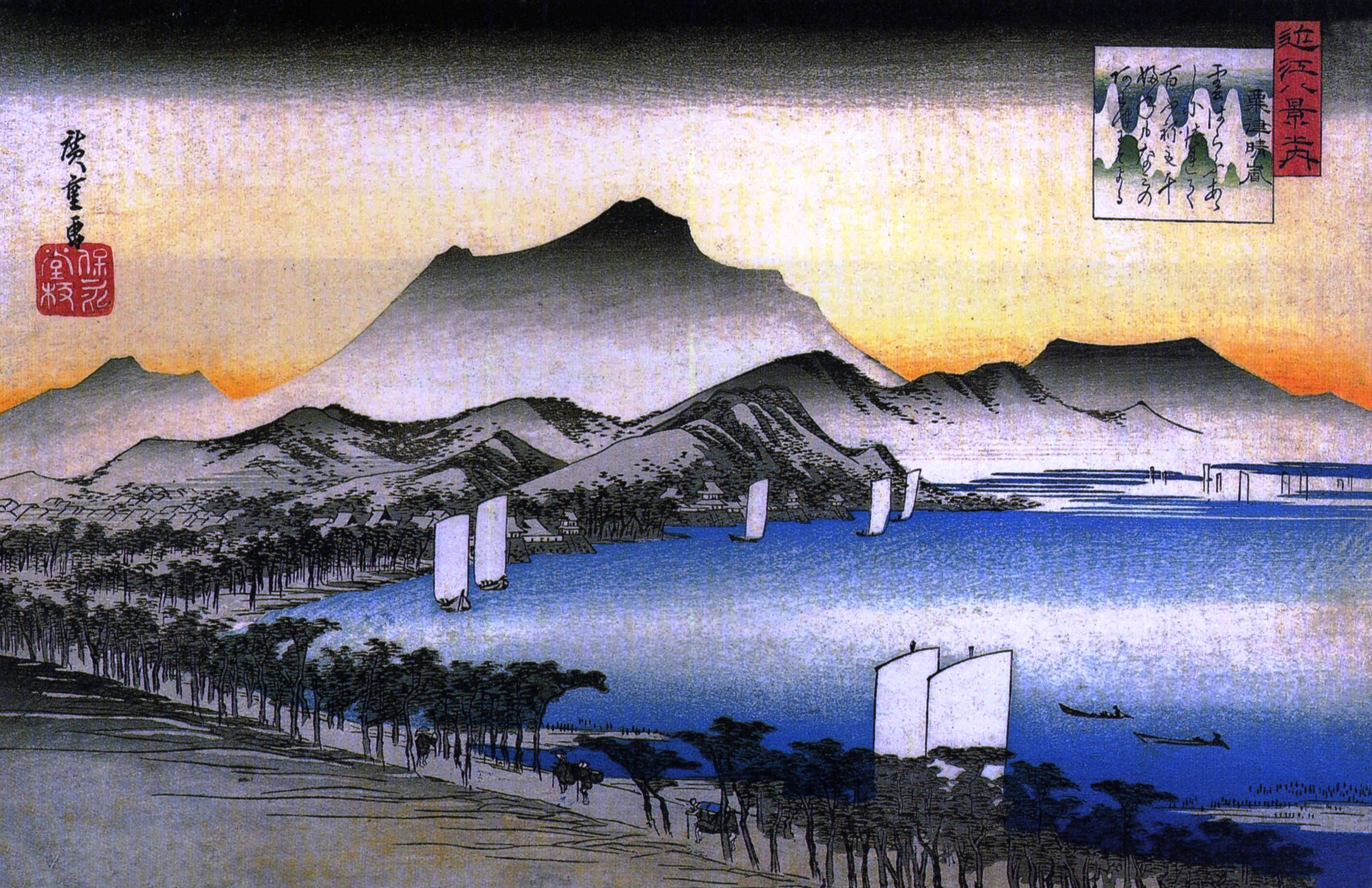 8 Views of Omi - #8. Clearing Storm, Awazu